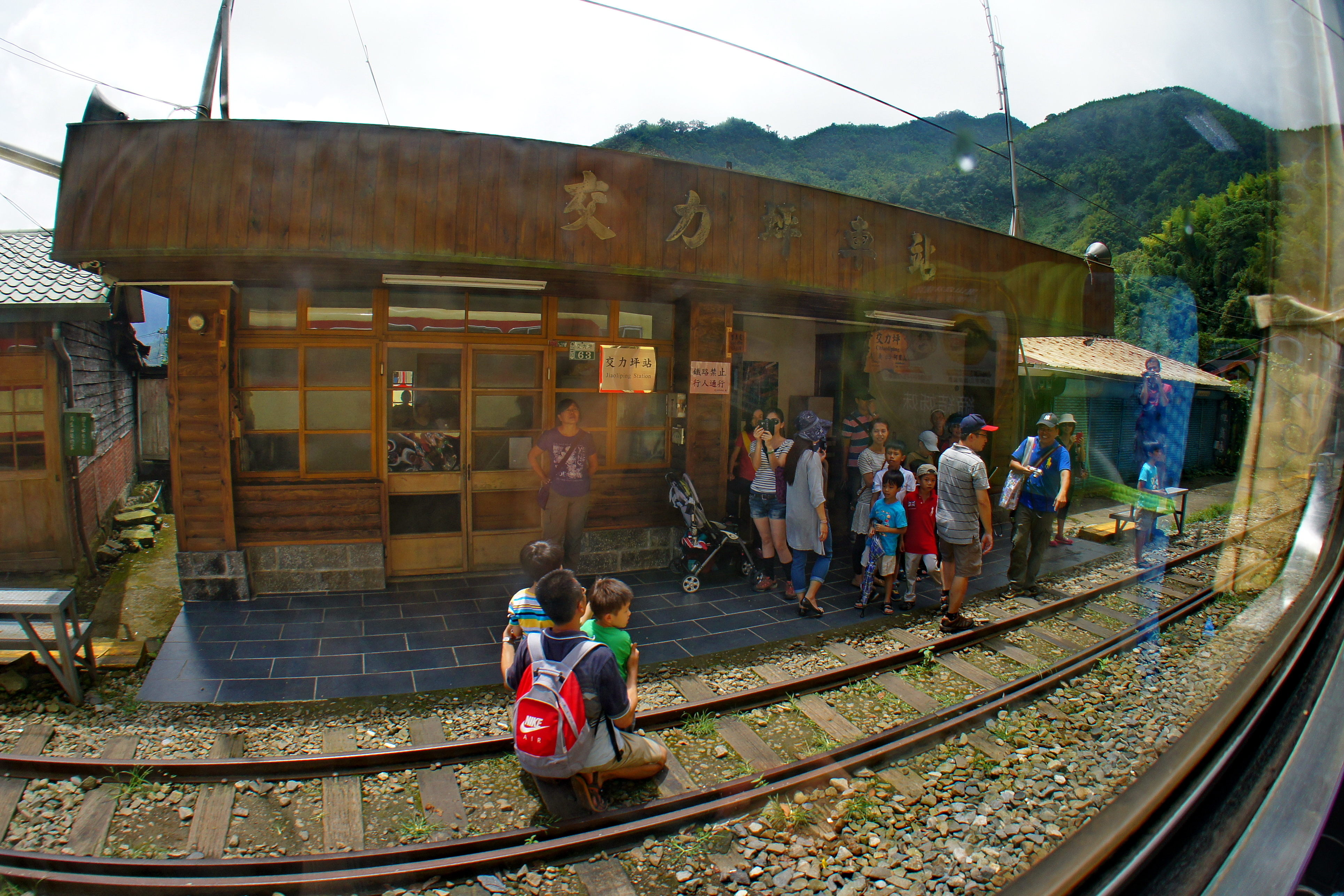 A fisheye shot of the Jiaoliping Station, Taiwan.